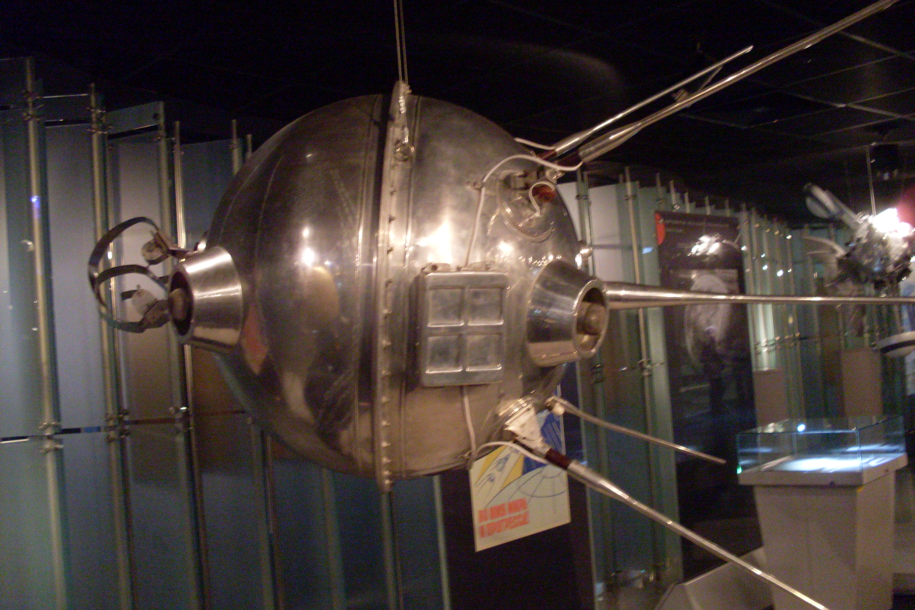 Mockup (1:1) of the spacecraft Luna 1 at Memorial Museum of Astronautics (Moscow).